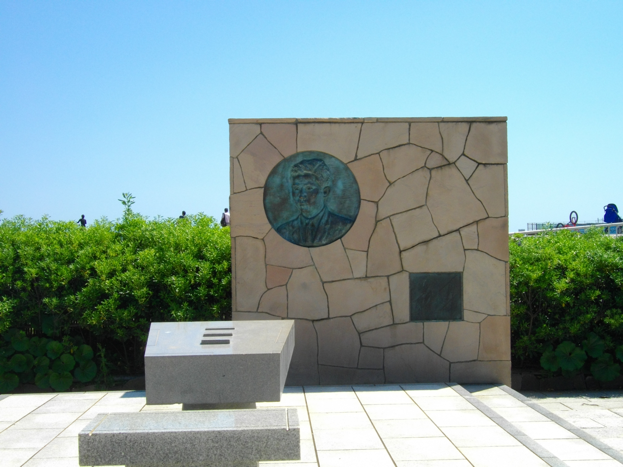 Nie Er Cenotaph